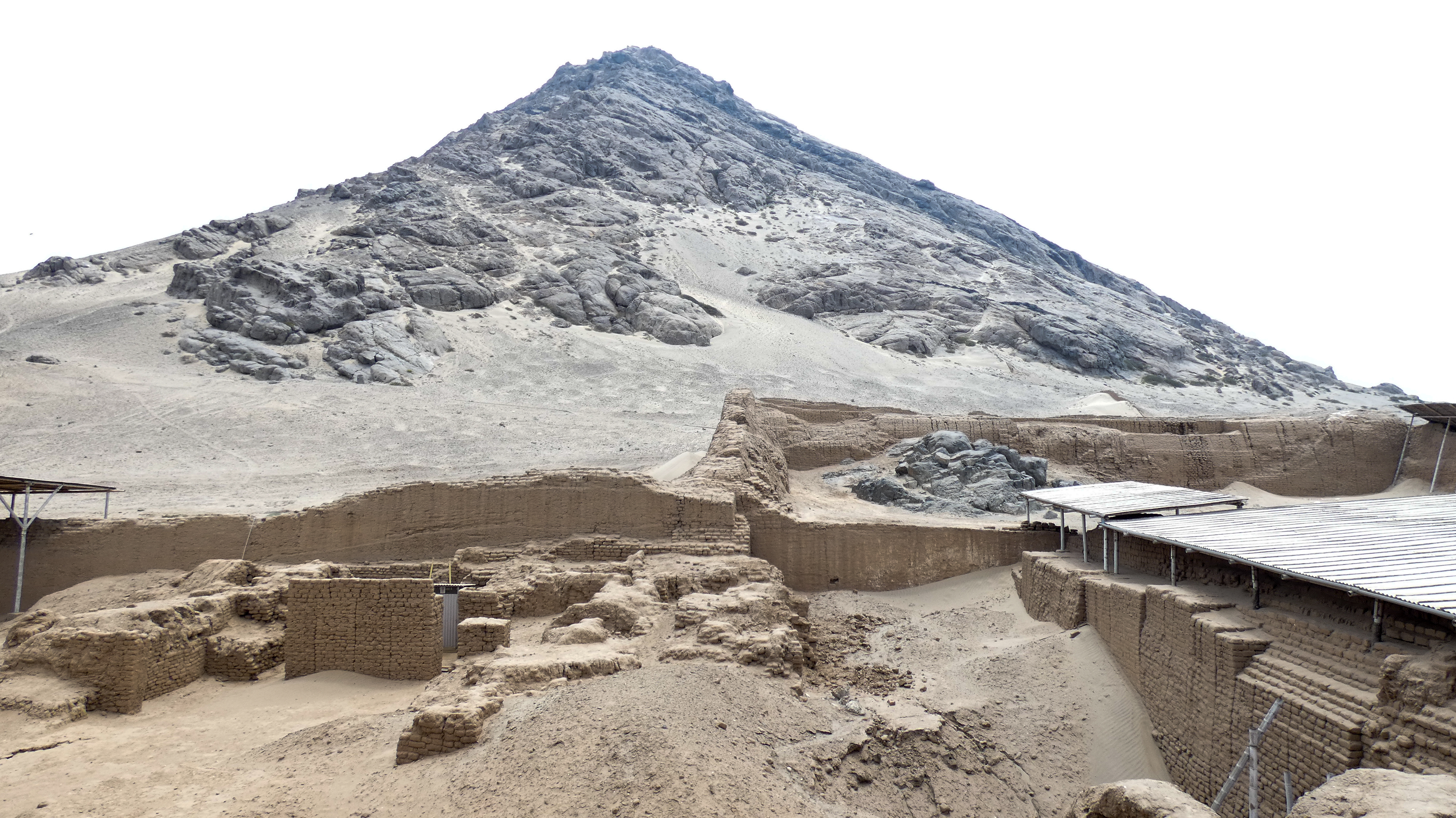 View of the Huaca de la Luna - Site of the Huacas de Moche - Trujillo - Peru